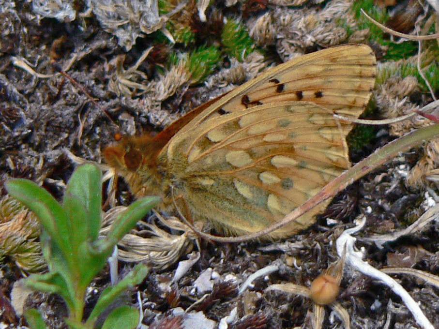 Mormon Fritillary